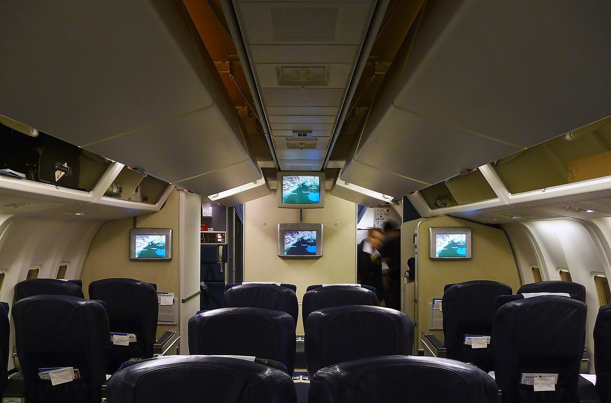 Aerosvit Boeing 767-383ER interior